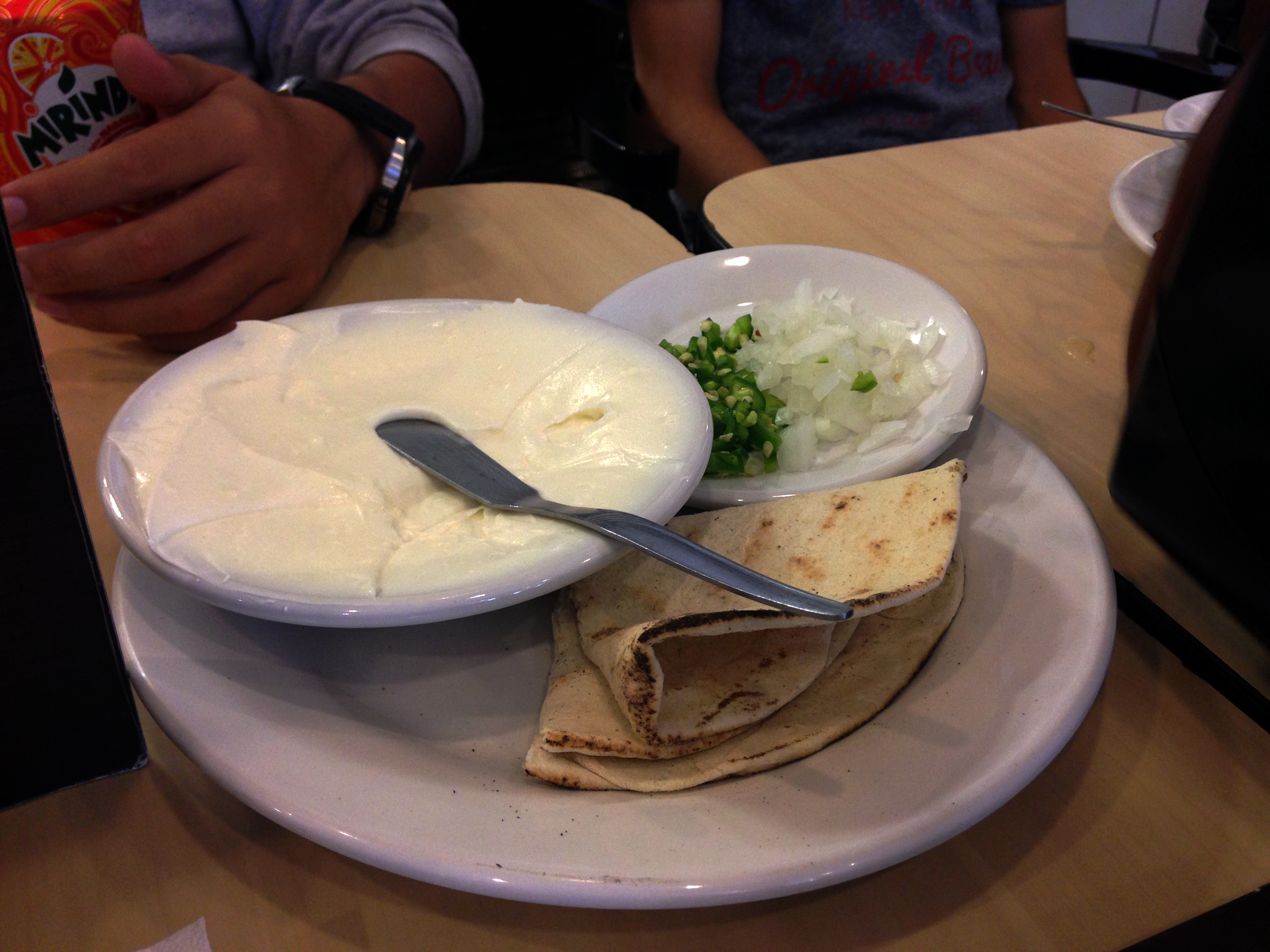 Taquería La Oriental Puebla.